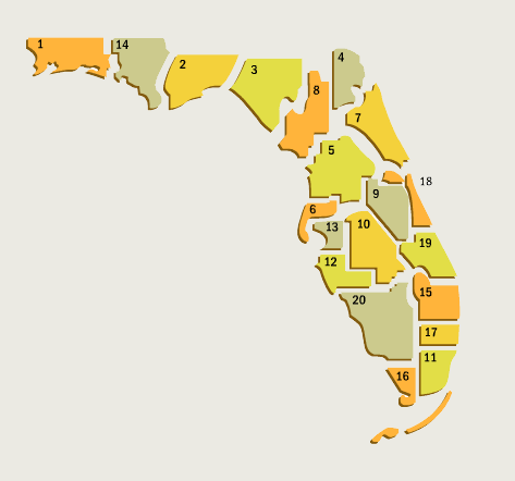 Map of Florida Circuit Courts